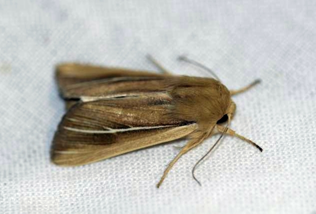 Mythimna litoralis Location: The Netherlands - Vlieland - Kazerne / Schietkamp